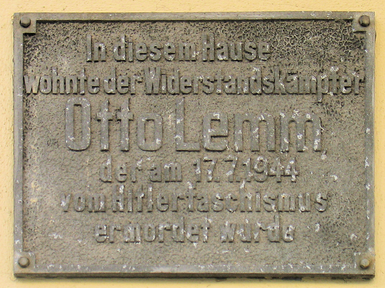 Memorial plaque, Otto Lemm, Oudenarder Straße 28, Berlin-Wedding, Germany